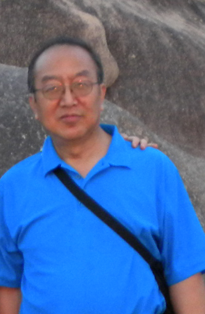 Lu Zhujia in Tianya Haijiao, Sanya, Hainan, China (2010)